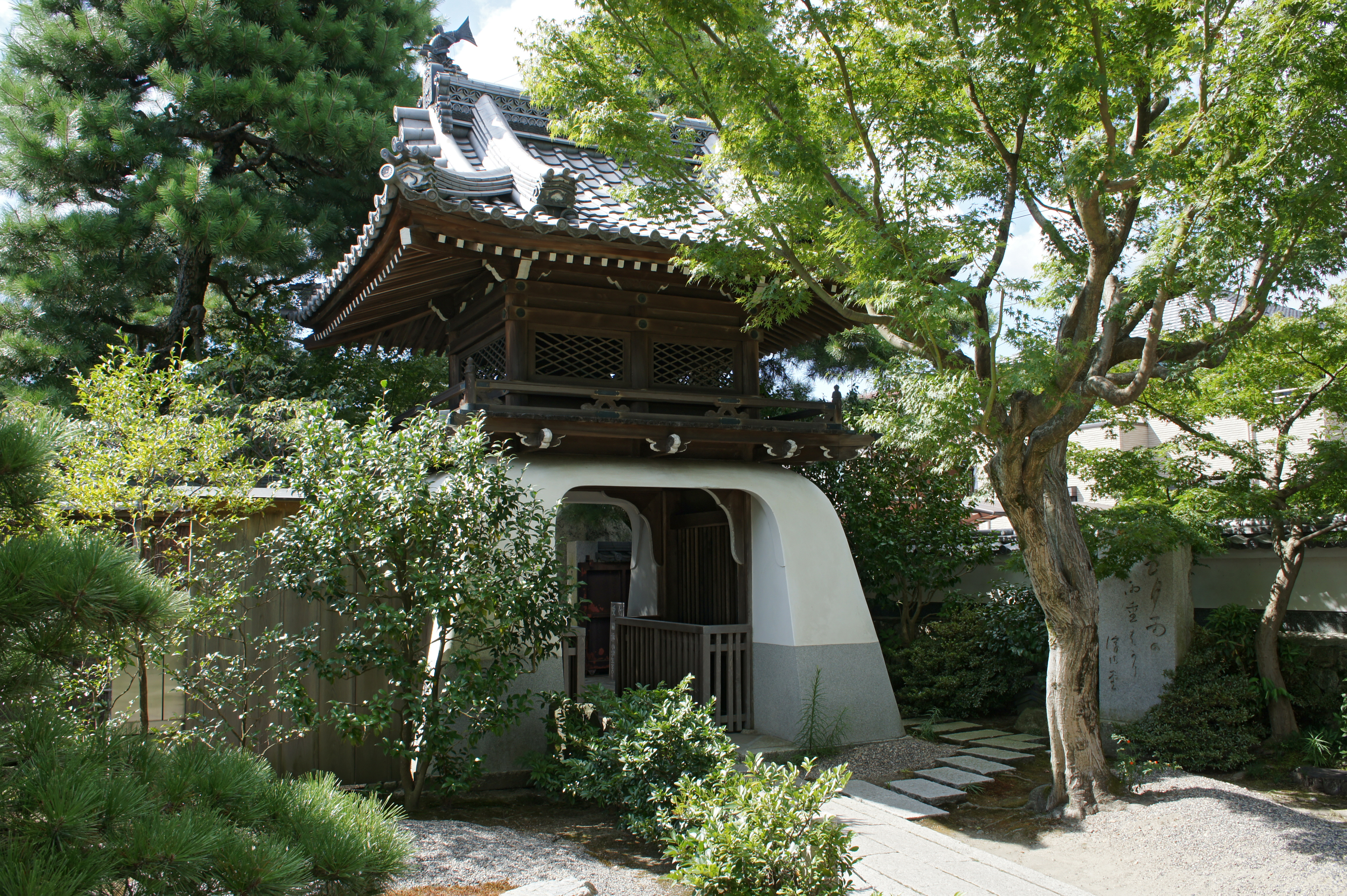 Mangetsu-ji in Otsu, Shiga prefecture, Japan